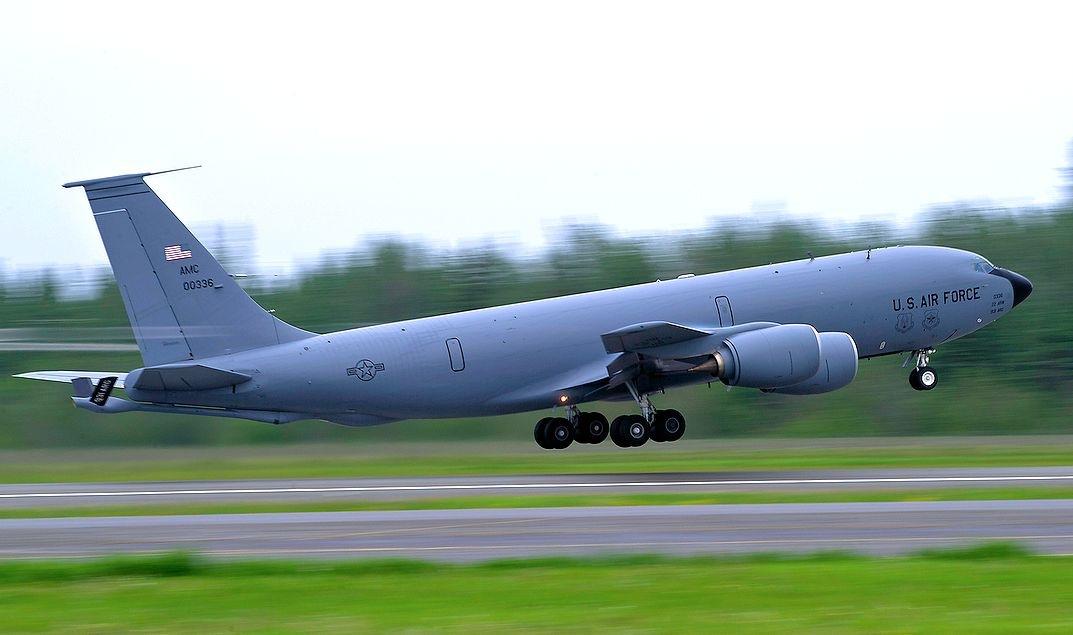 A U.S. Air Force KC-135R Stratotanker from the 931st Air Refueling Group, McConnell Air Force Base, Kan., takes off from Eielson AFB, Alaska for a combat training mission June 12, 2012, during Red Flag-Alaska 12-2. Red Flag-Alaska is a Pacific Air Forces-sponsored, joint/coalition, tactical air combat employment exercise which corresponds to the operational capability of participating units. The entire exercise takes place in the Joint Pacific Range Complex over Alaska as well as a portion of Western Canada for a total airspace of more than 67,000 square miles. (Department of Defense photo by U.S. Air Force Tech. Sgt. Michael R. Holzworth/Released)